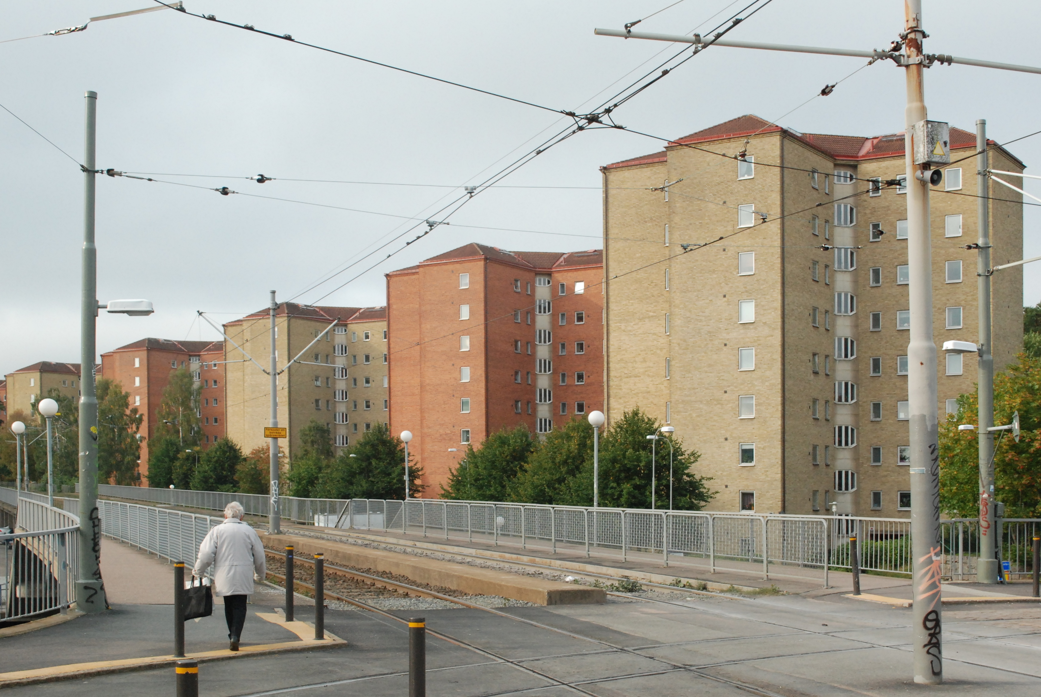 Bankogatan, from Axel Dahlströms torg. Architect: Åke Wahlberg.